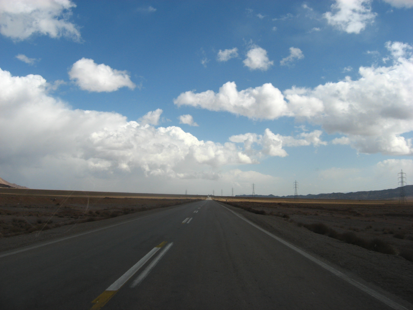 Road 68 in central Iran, connecting Yazd to Birjand. This Photo is taken near the village Kharanagh.